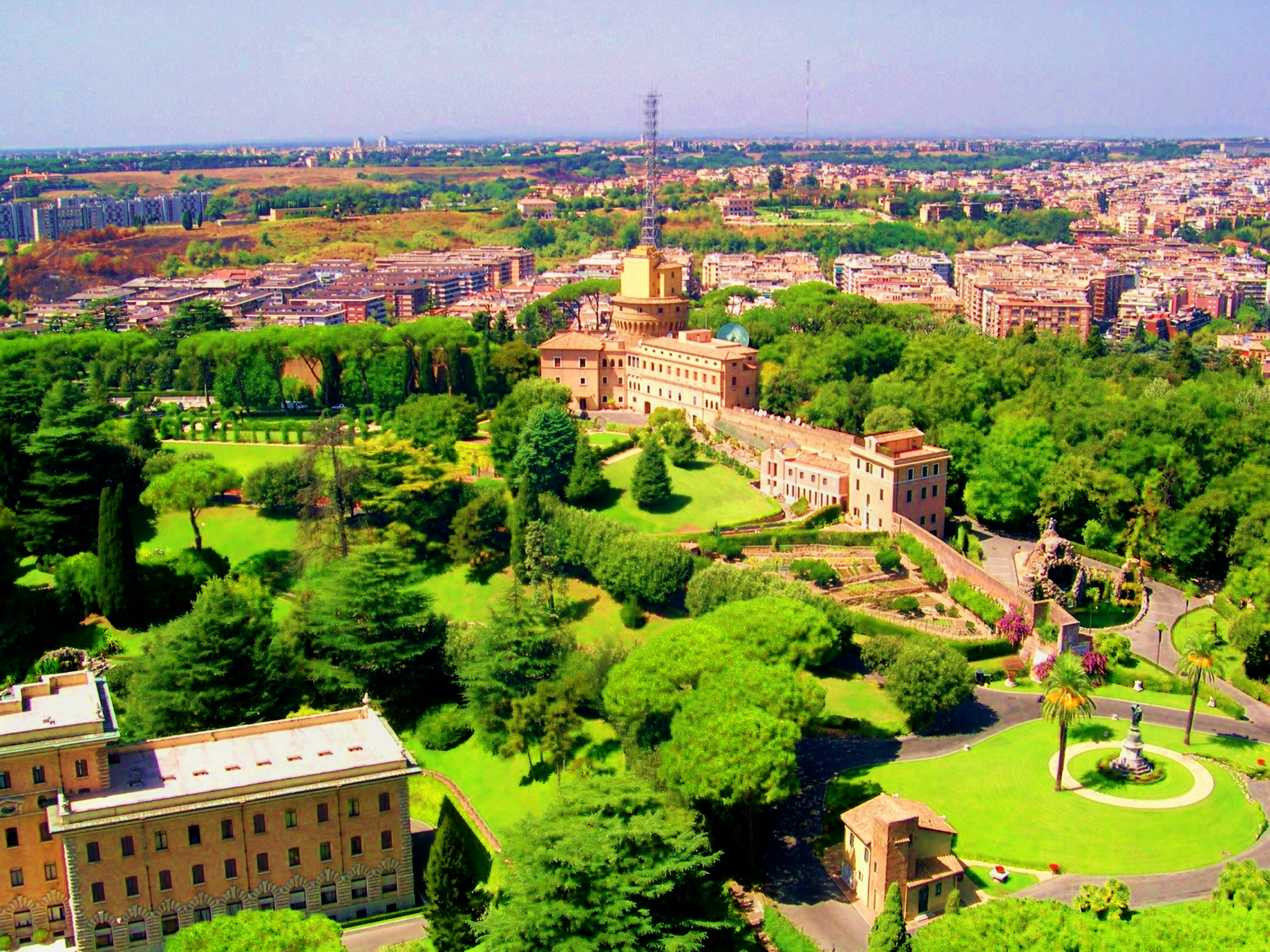 A view of the Vatican Gardens